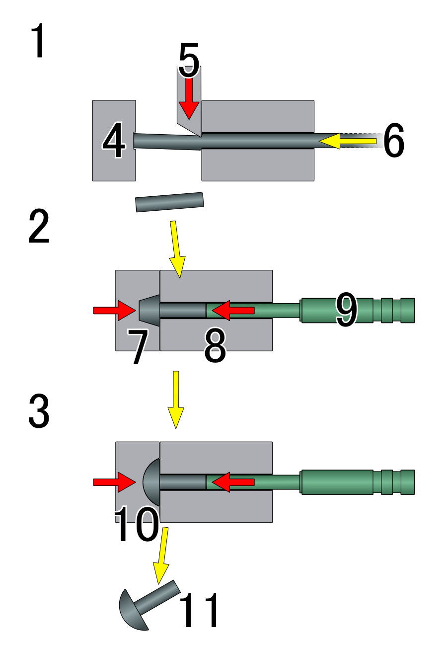 Screw (bolt) 13-n